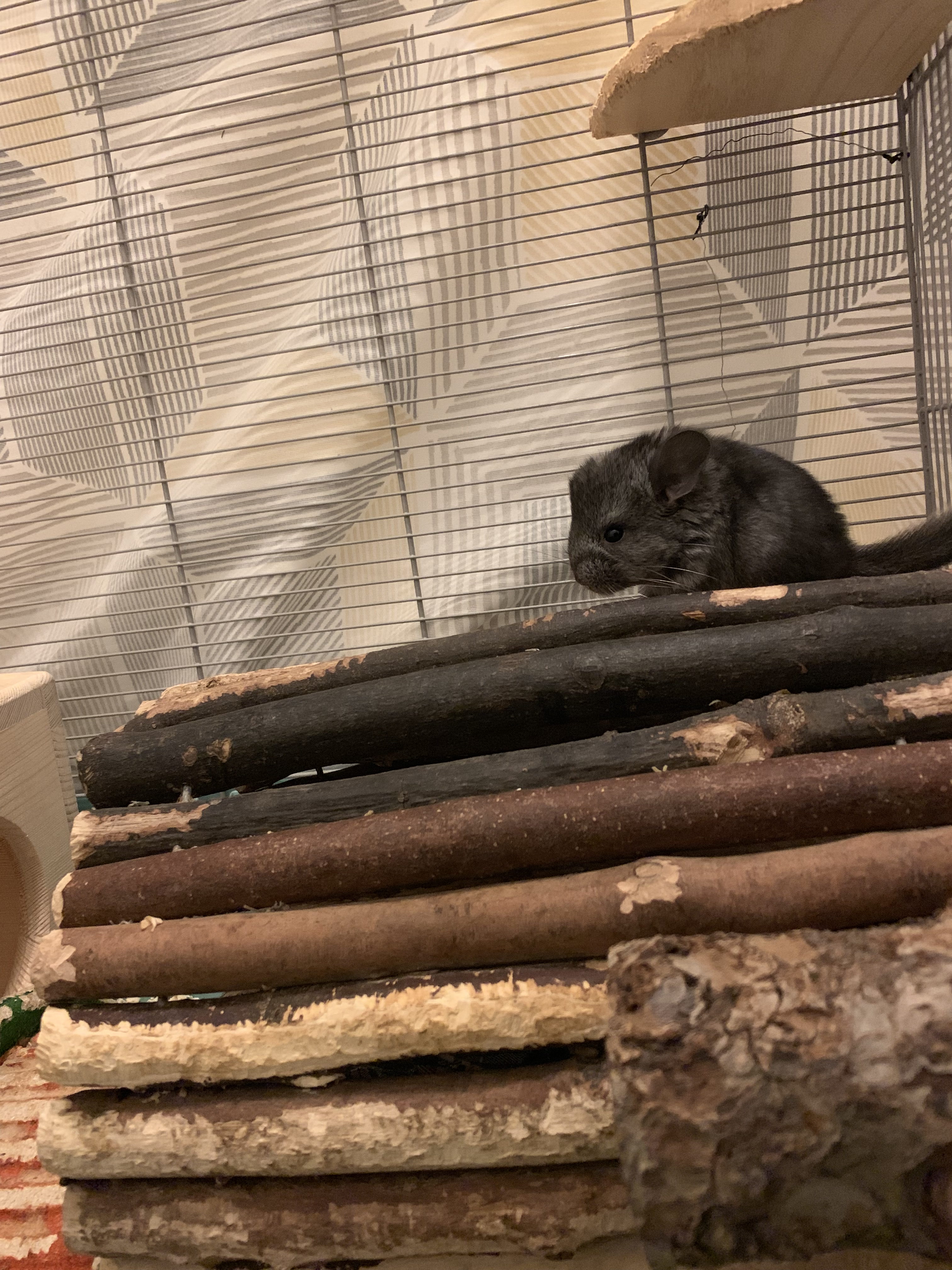 Baby chinchilla